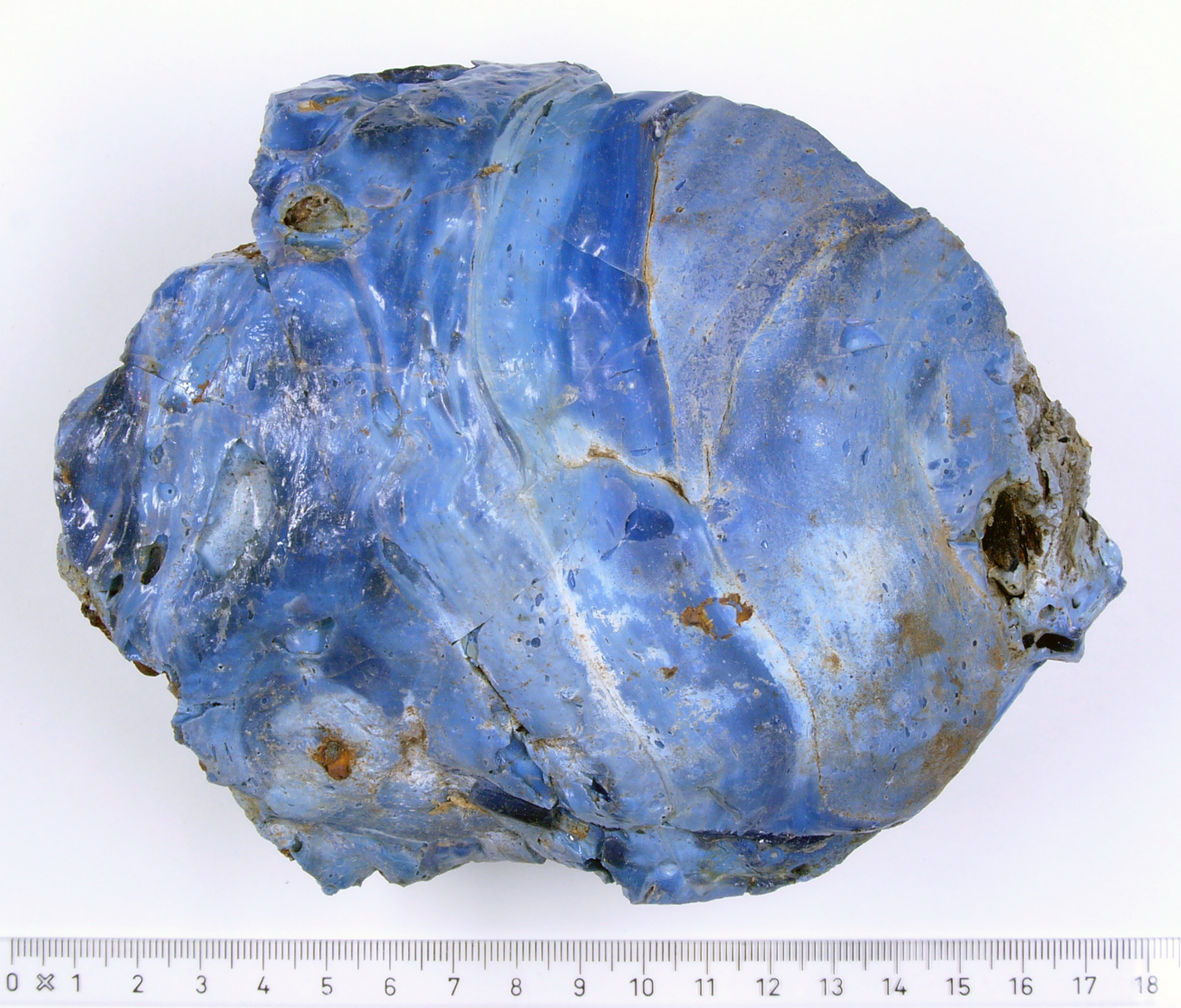 Bluish slag from iron ore smelting, operational 16. to 18. century (Bodesteine or Bodeachat; found in river Bode, Bode-valley close to Elend/Mandelholz, Harz Mountains, northern Germany.